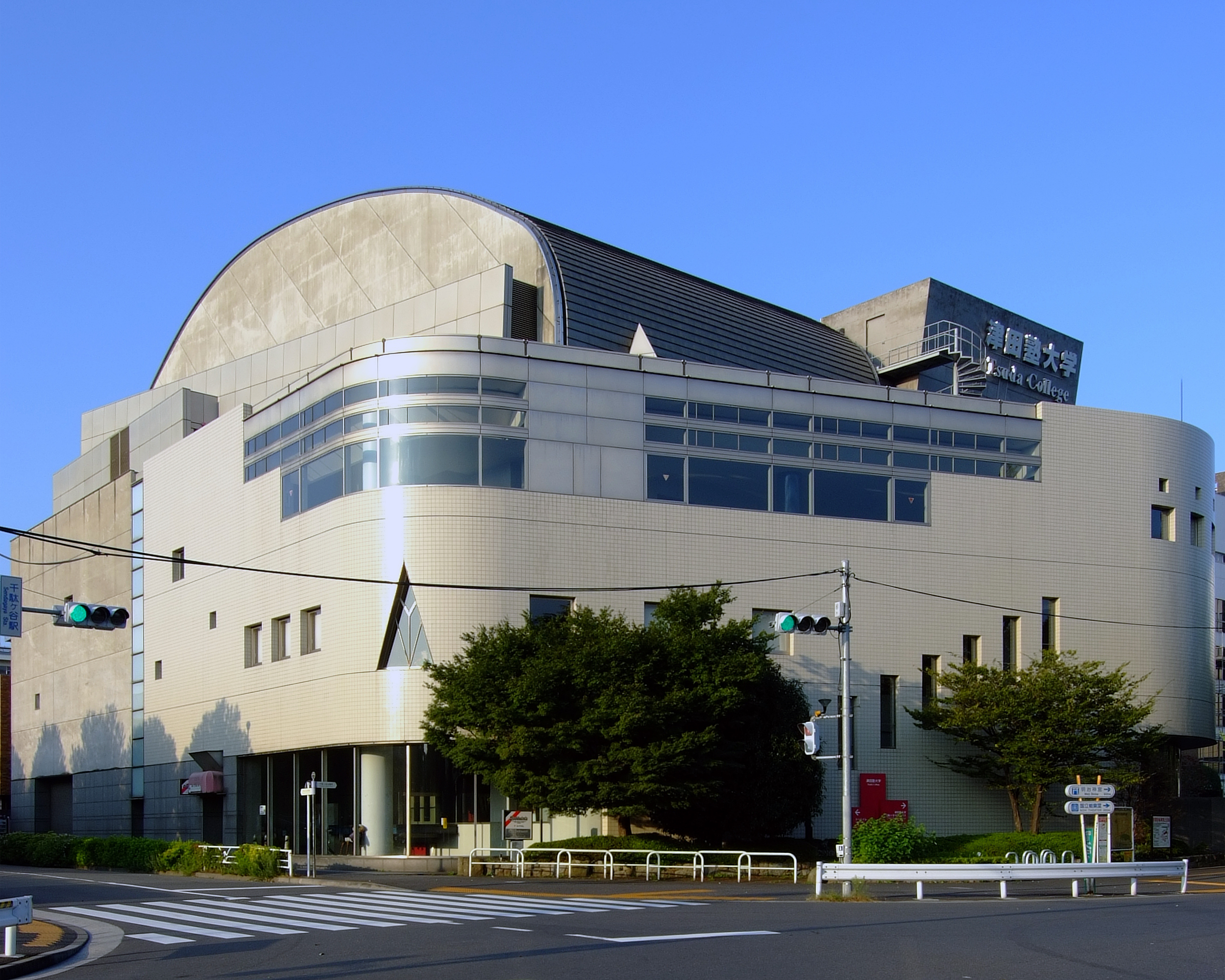 Tsuda Hall, at Sendagaya Tokyo Japan, design by Fumihiko Maki in 1988.